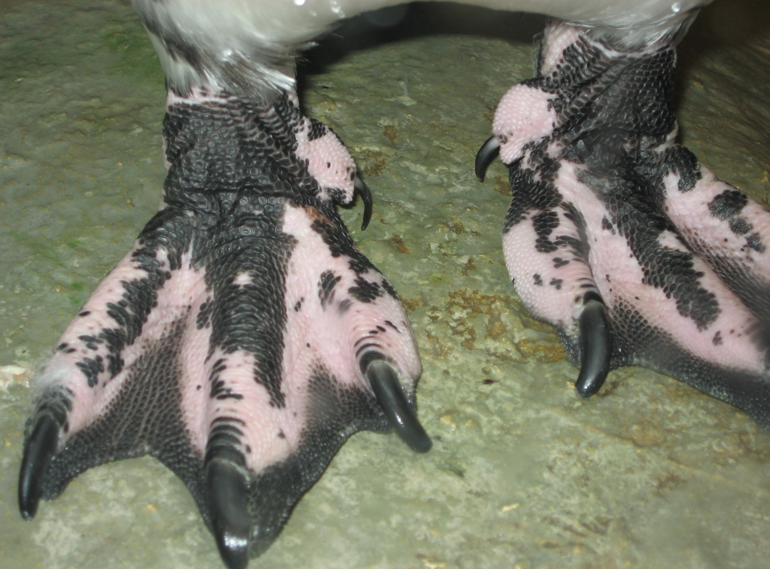 Spheniscus demersus feets in Nausicaä Centre National de la Mer